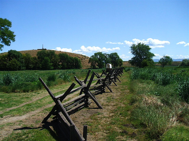 The Oregon trail at the eastern side of the Oregon-Washington border.